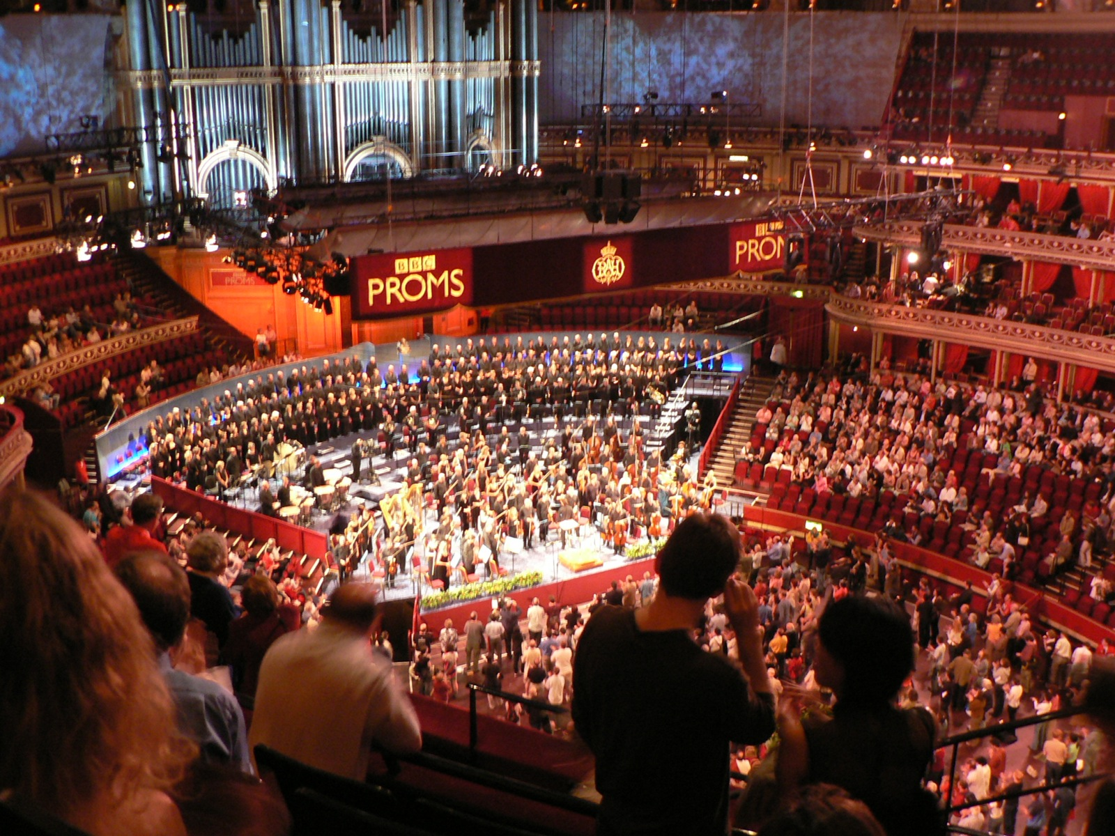 British Broadcasting Corporation Promenade (or BBC Proms) concert at the Royal Albert Hall. The "promenade" section is the standing area immediately in front of the orchestra.